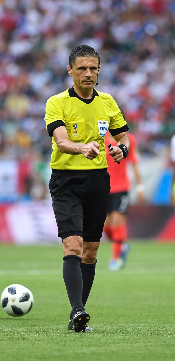 Milorad Mažić